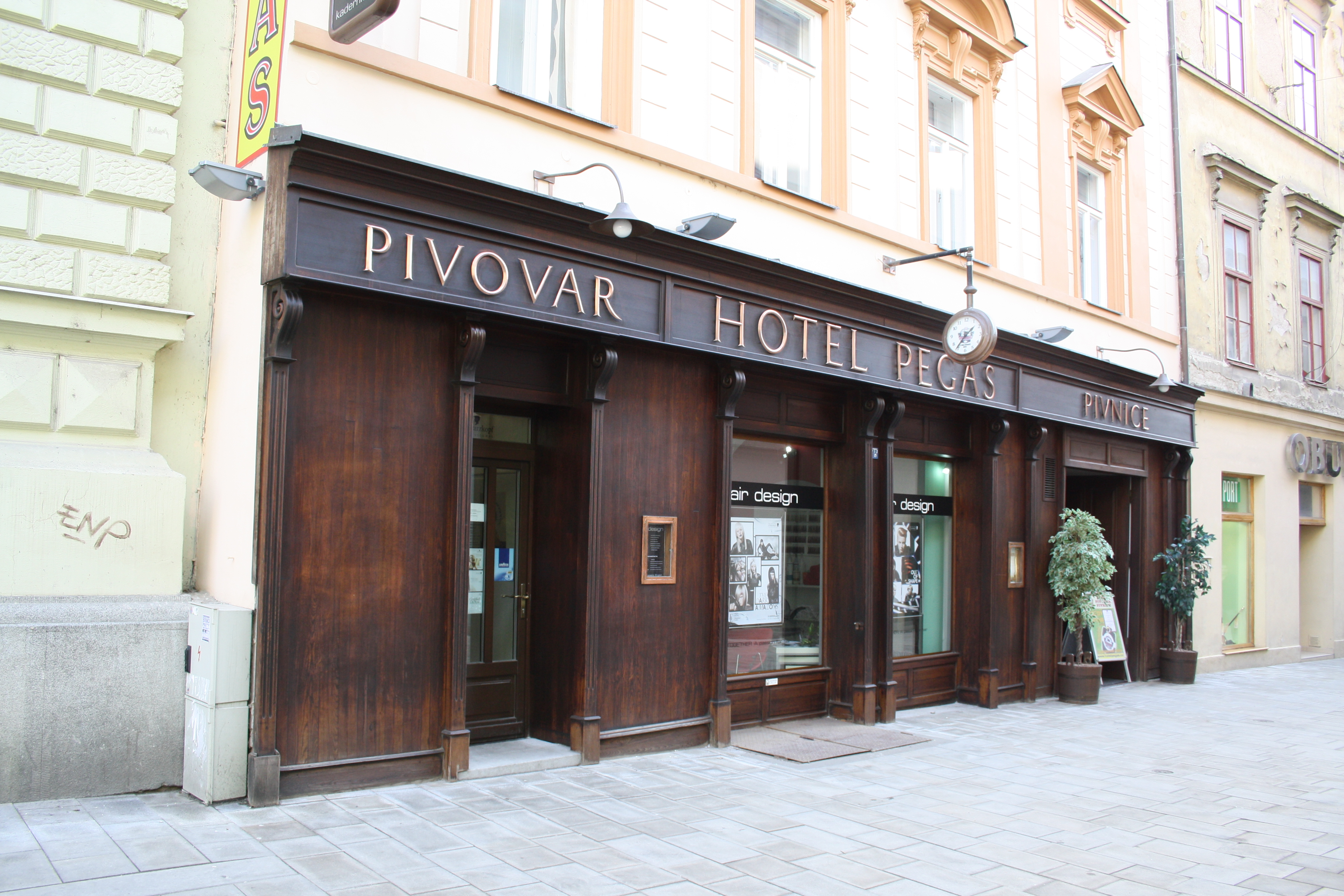 Brewery and restaurant Pegas in Brno-Center.